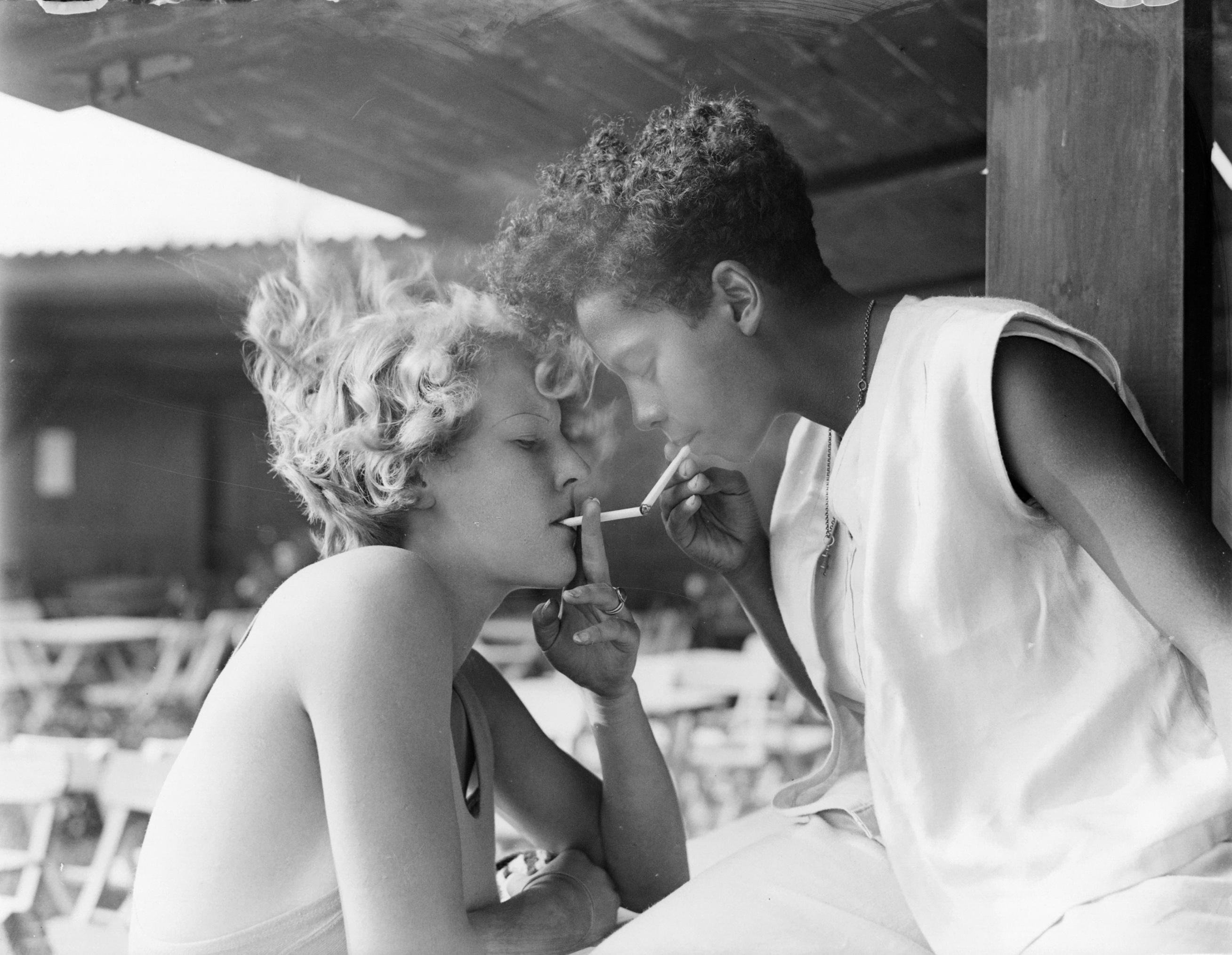 Lighting each others cigarettes, 1932